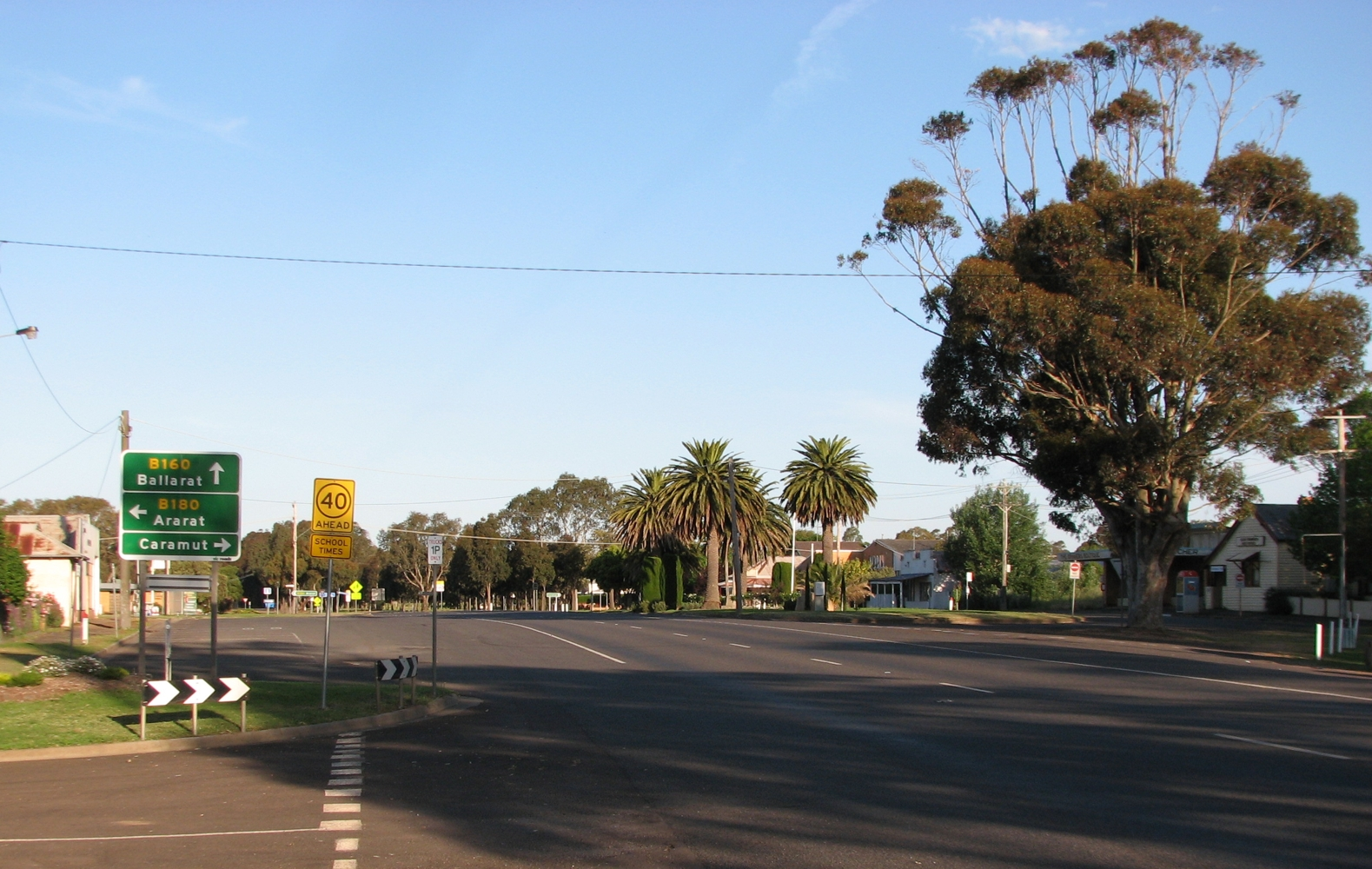 West approach on Glenelg Highway, Glenthompson, Victoria, Australia